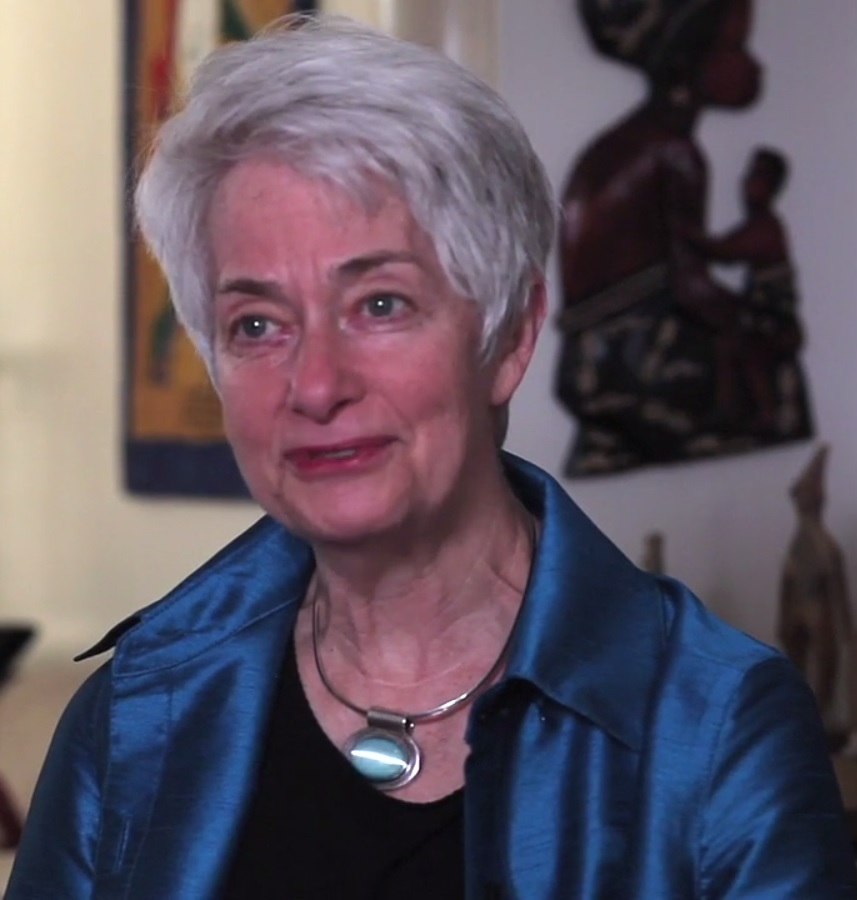 American political activist Heather Booth, in documentary about her by Lilly Rivkin.